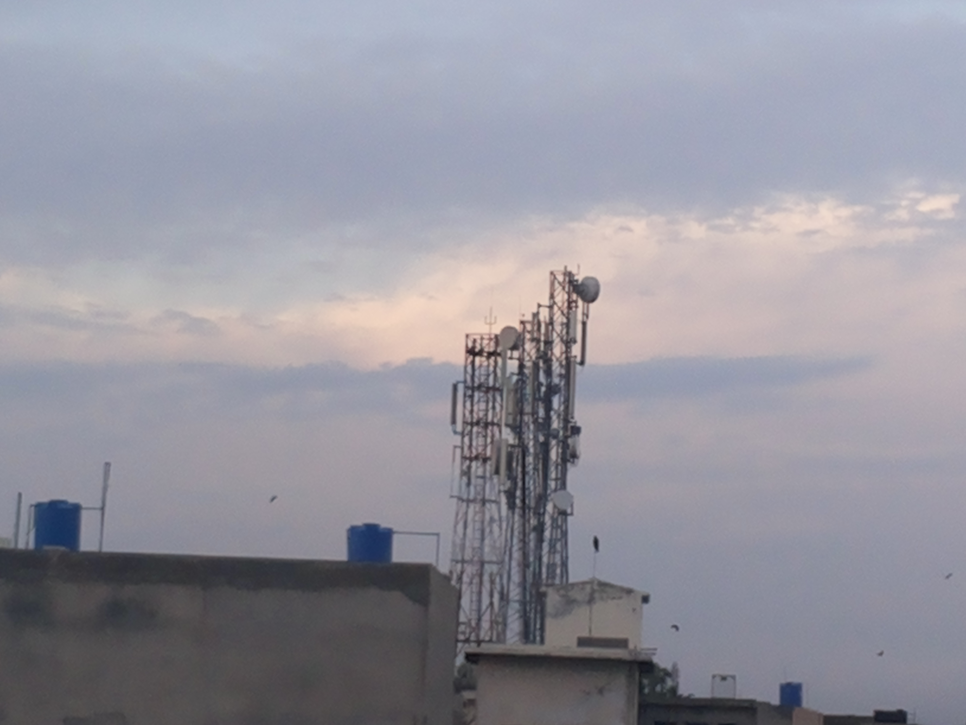 Cell sites located in Ittefaq Colony, Jalalpur Jattan, Gujrat